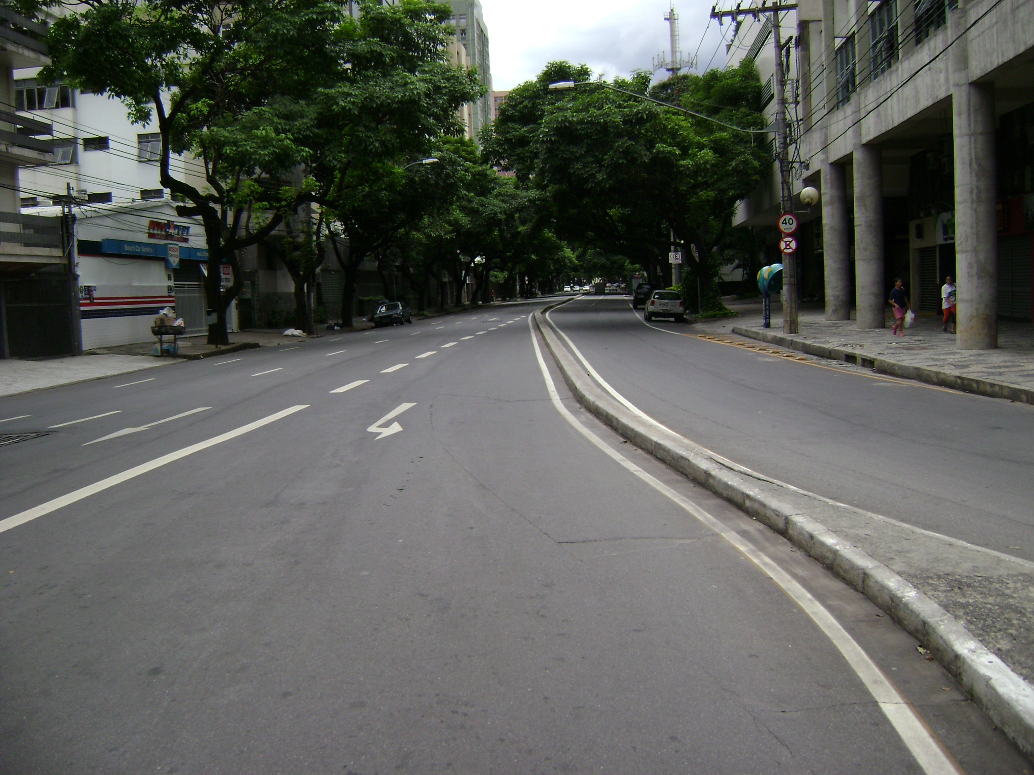 Avenida Prudente de Morais, em Belo Horizonte.